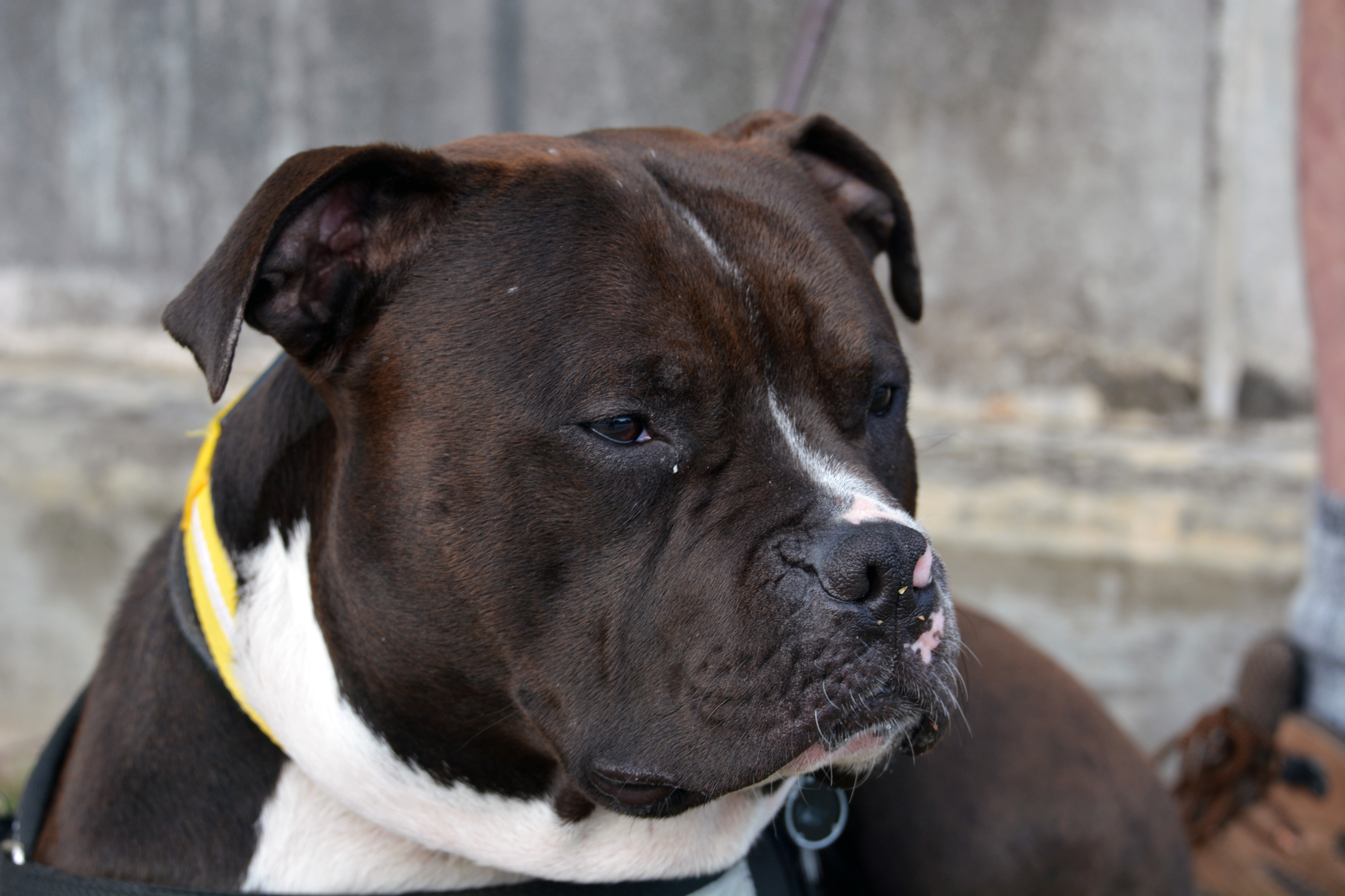 C.T., the dog belonging to Ranger veteran Joe Trainor, Jr. rests during their short stay at the 75th Ranger Regiment while on an epic 30-day cross country journey to raise awareness for veteran transition service. (U.S. Army photo by Pfc. Eric Overfelt, 75th Ranger Regiment documentation specialist/Released) Unit: The 75th Ranger Regiment